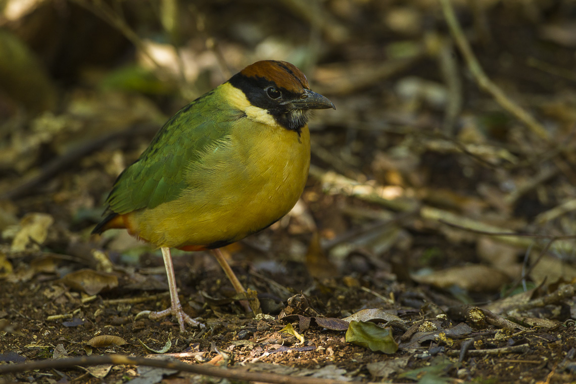 Noisy Pitta - Lamington NP - Queensland_S4E6526